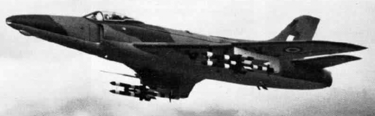 A Royal Air Force Supermarine Swift F.7 armed with Fairey Fireflash air-to-air missiles. The Swift probably belonged to of No. 1 Guided Weapons Development Squadron at RAF Valley, Anglesey, Wales (UK).